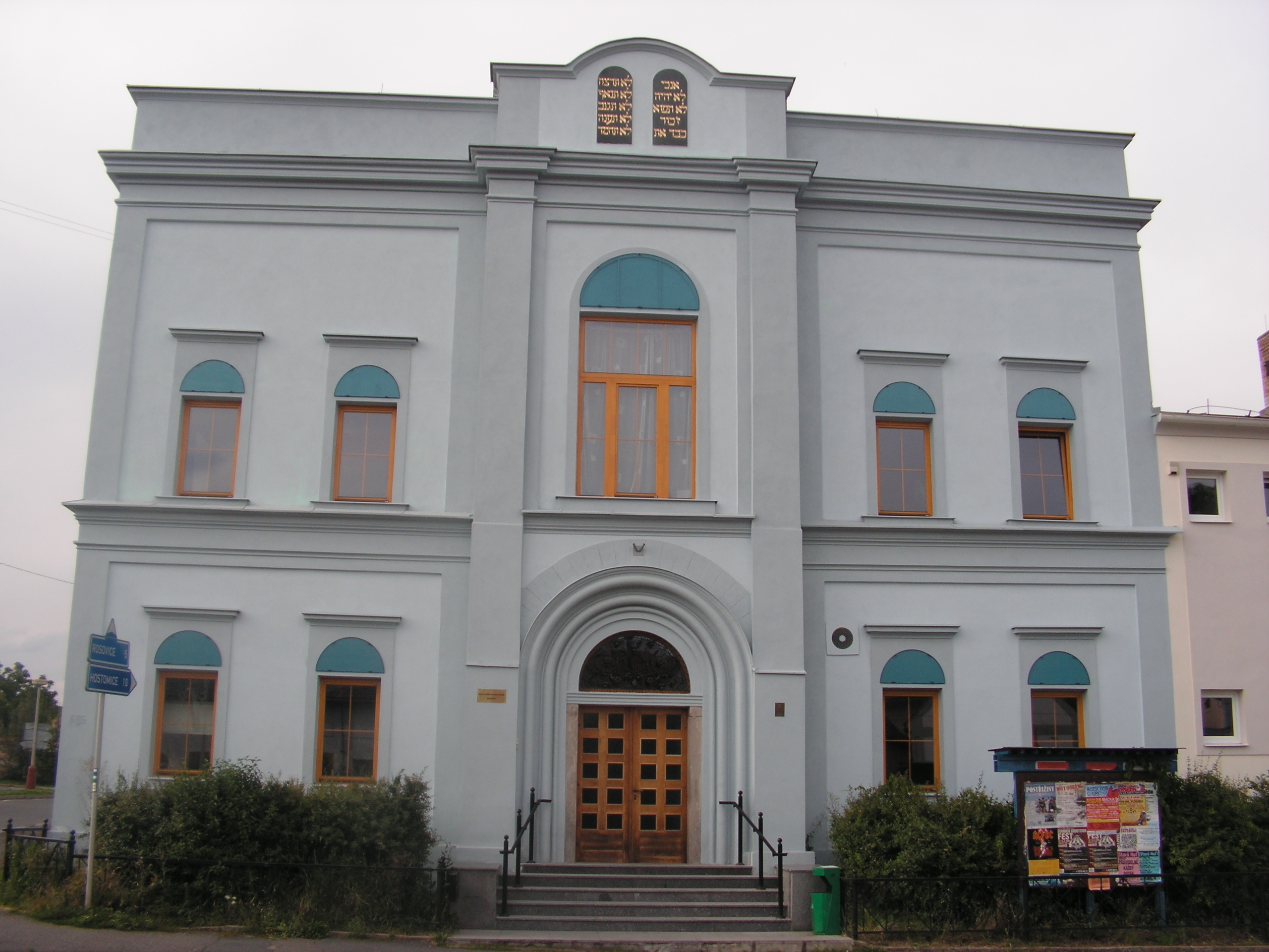 Synagogue in Dobris, CZ Česky: Synagoga v Dobříši